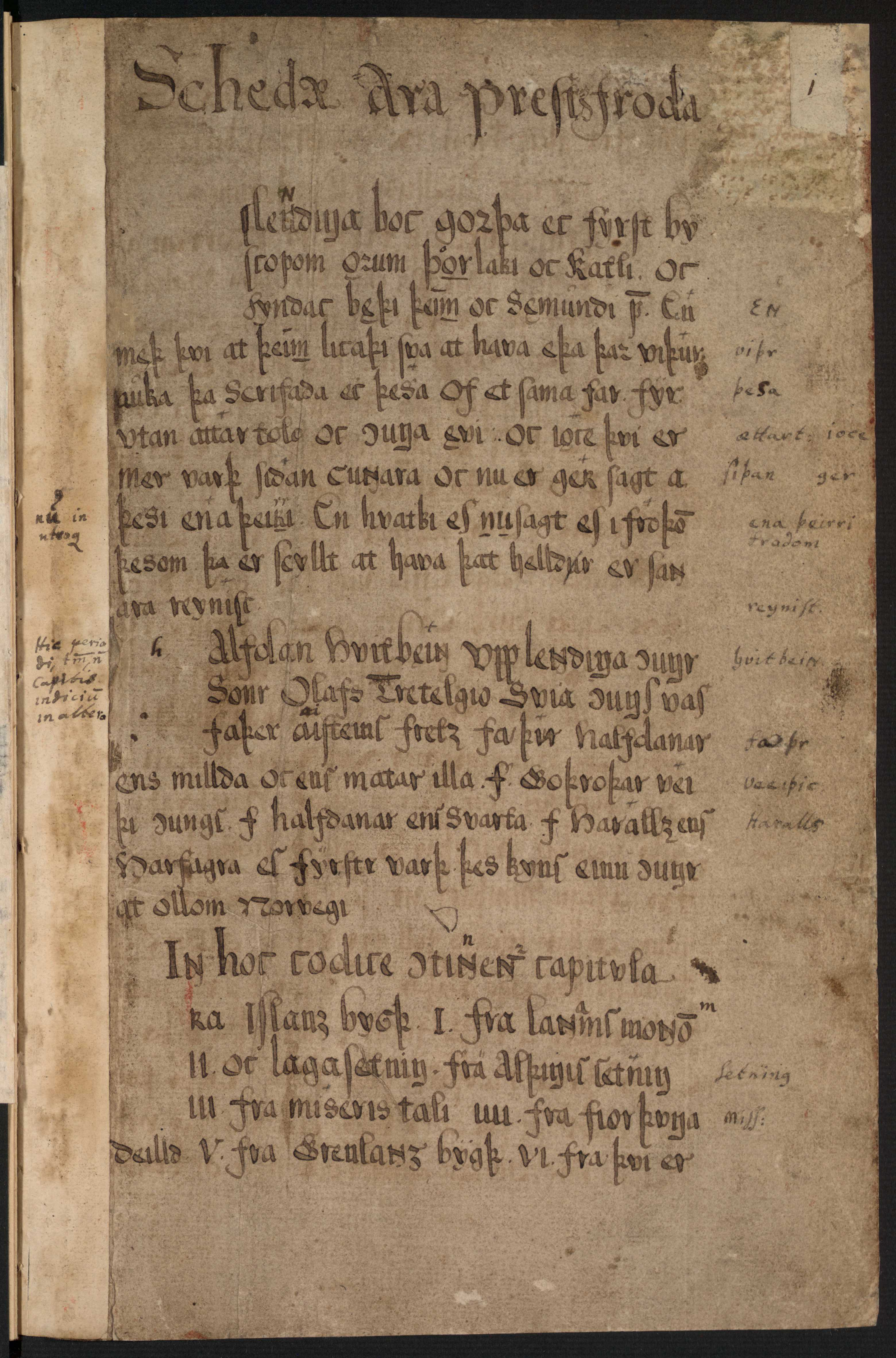 Copy of Íslendingabók by Jón Erlendsson, stored at Árni Magnússon Institute (page 15/38)